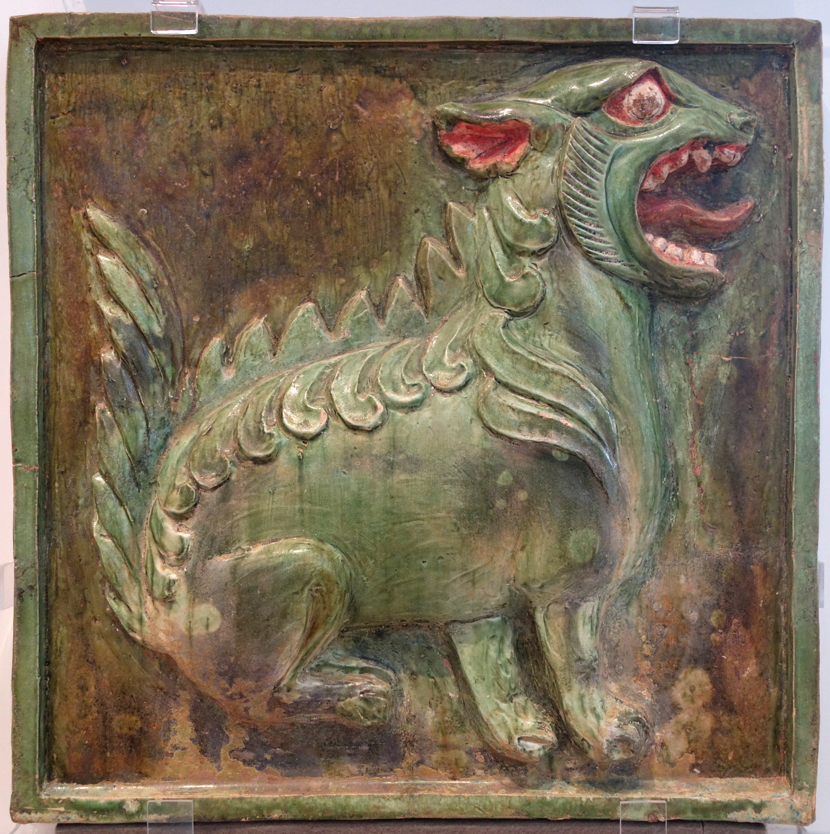 Exhibit in the Royal Ontario Museum, Toronto, Ontario, Canada. This work is old enough so that it is in the public domain.